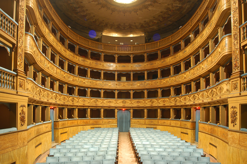 Interior of Teatro del Pavone Perugia